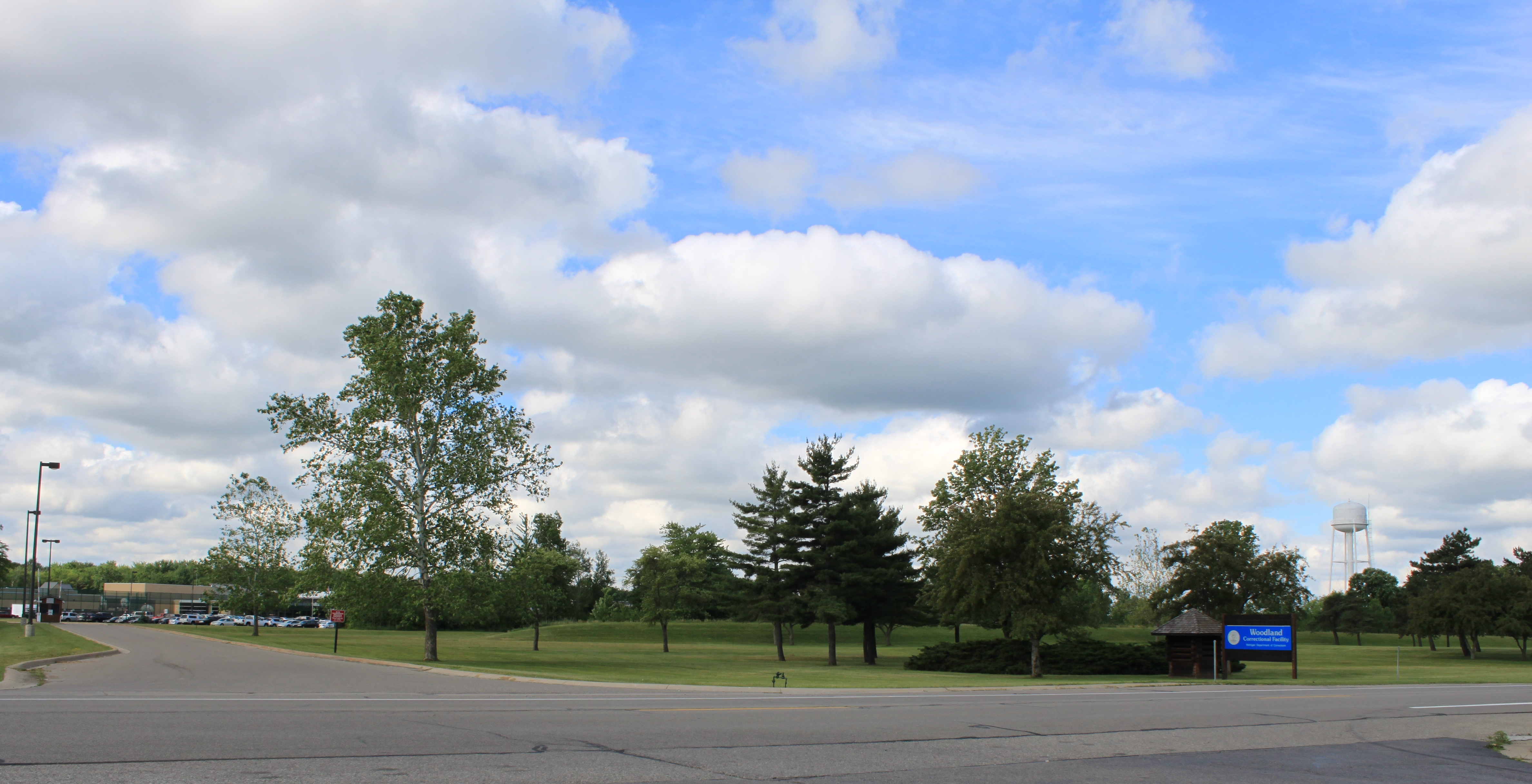 Woodland Center Correctional Facility entrance, 9036 M-36 (Nine Mile Road), Green Oak Township (Whitmore Lake), Michigan.